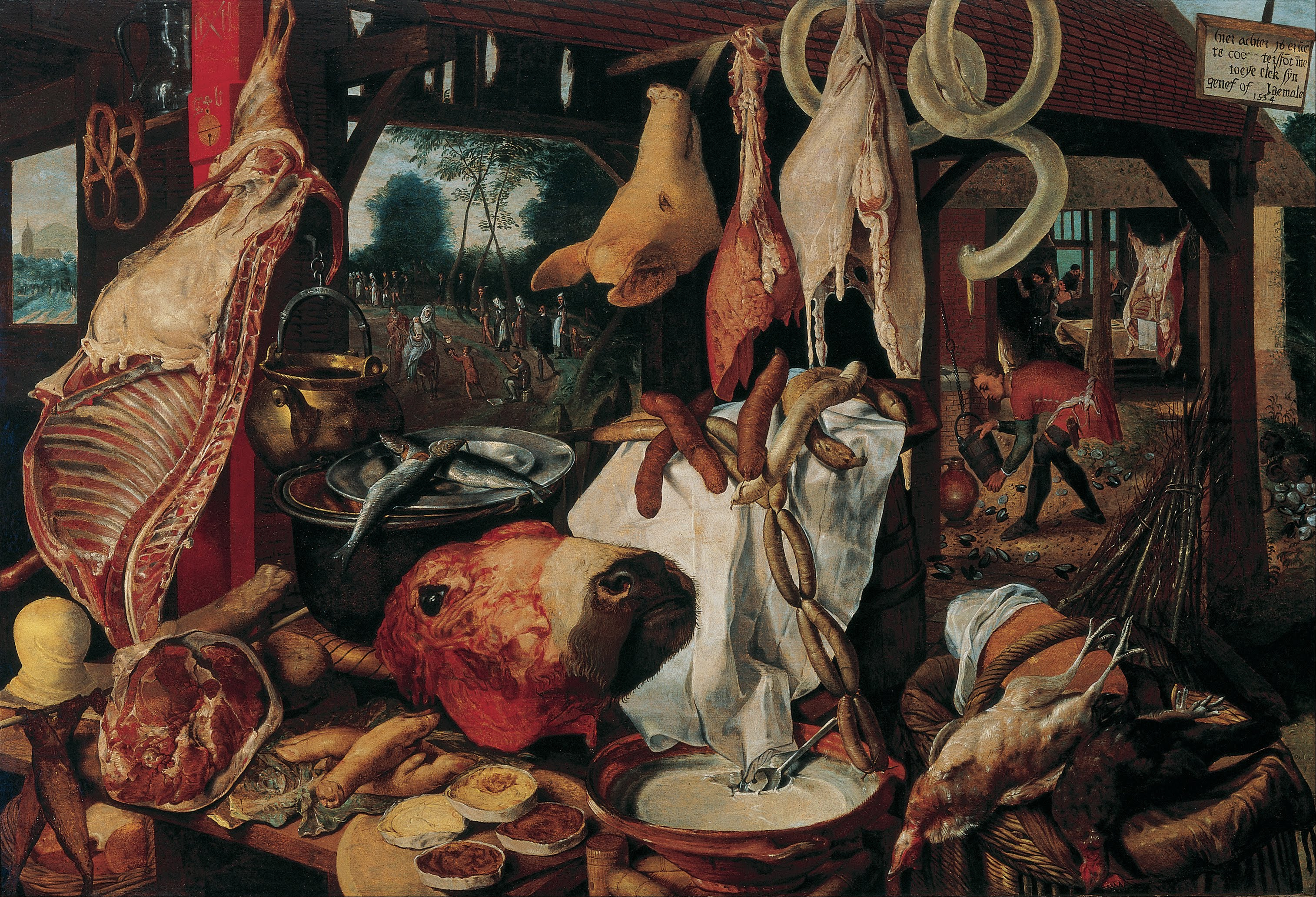 Holy Family distributing alms on their journey to Egypt to escape from Herod's harassment